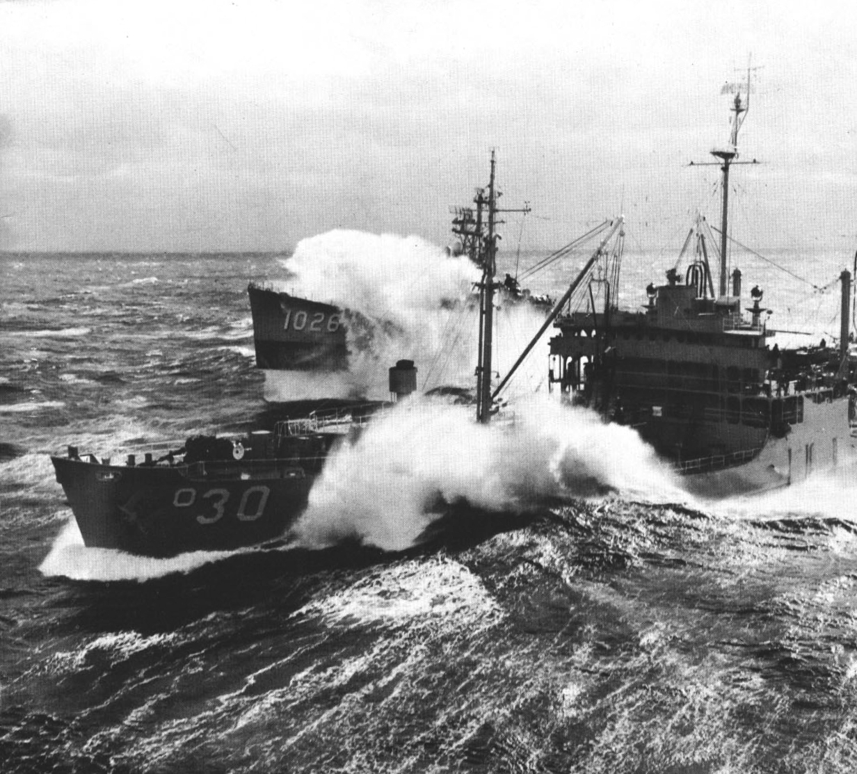 The U.S. Navy fleet oiler USS Chemung (AO-30) refueling the destroyer escort USS Hooper (DE-1026) in heavy seas off the coast of Japan, circa 1966.